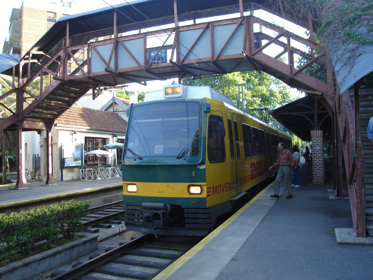 Parked in Borges